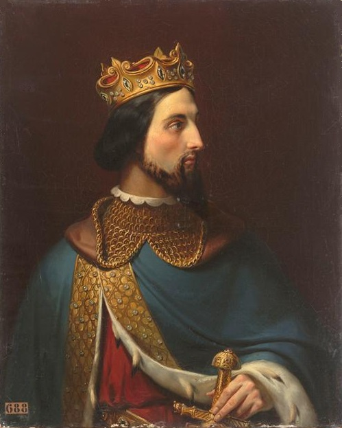 Portraits of Kings of France is a serie of portraits commissioned between 1837 and 1838 by Louis Philippe I and painted by various artists for the Musée historique de Versailles.